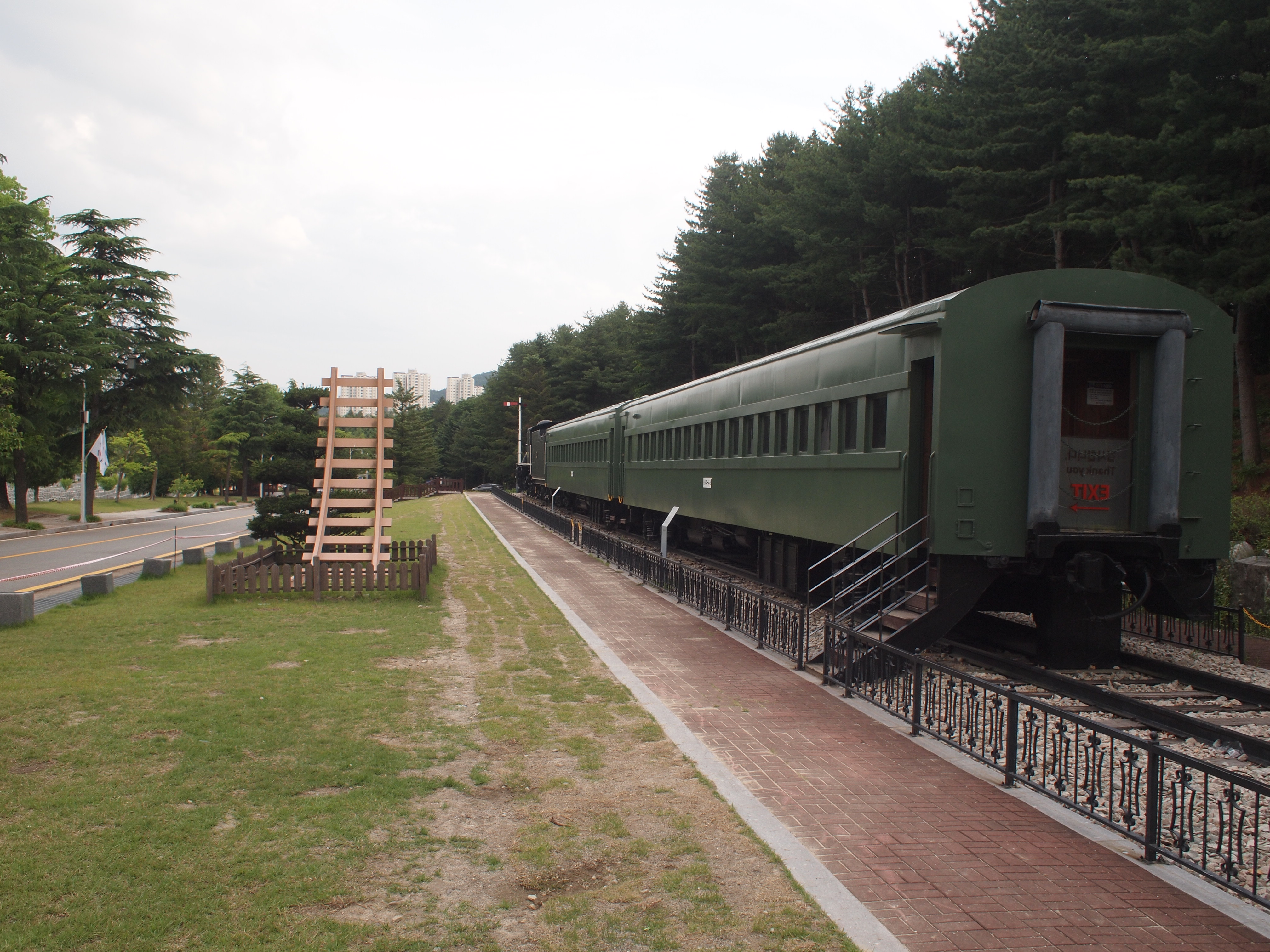 Daejeon National Cemetery